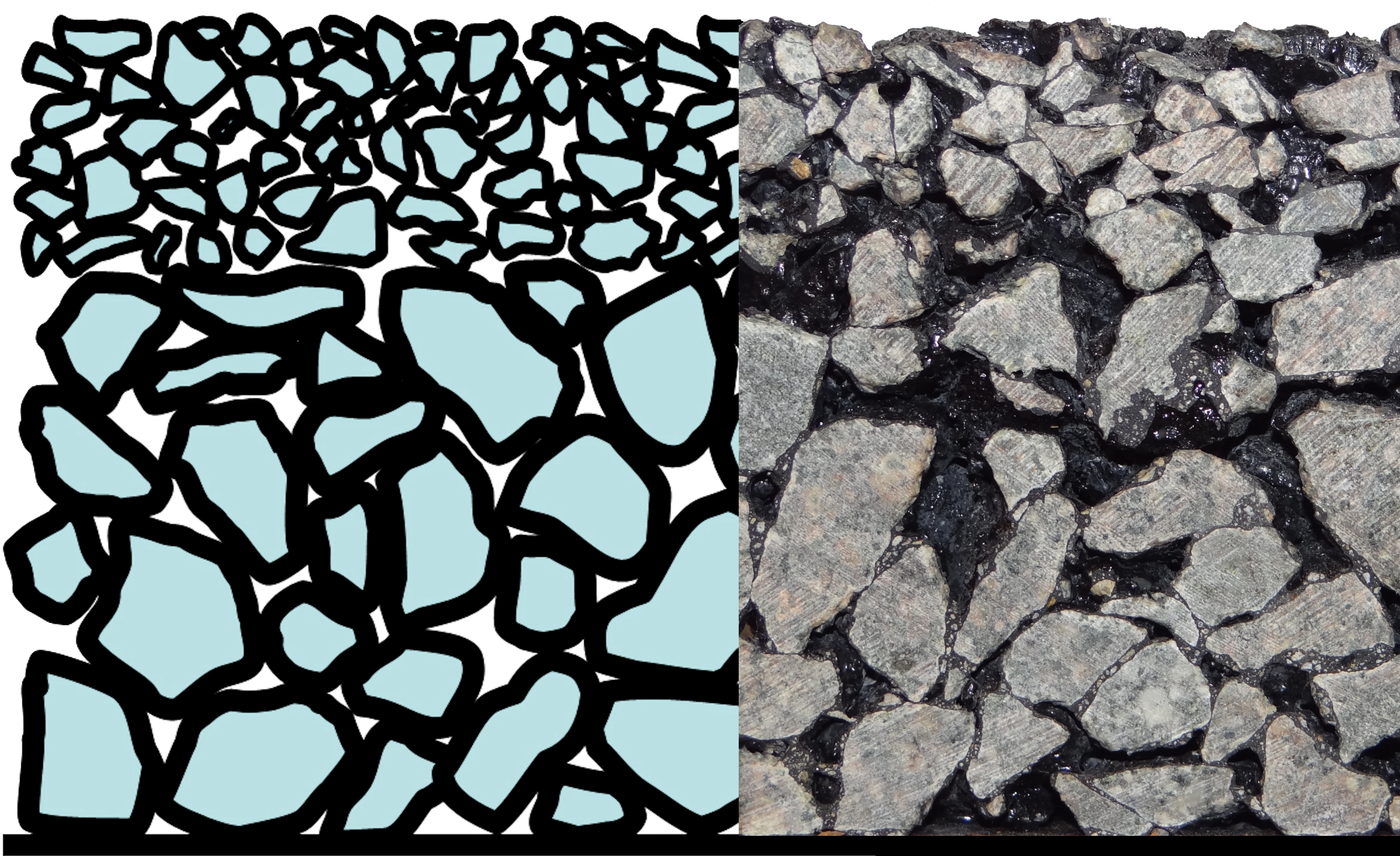 Porous asphalt 2 layer